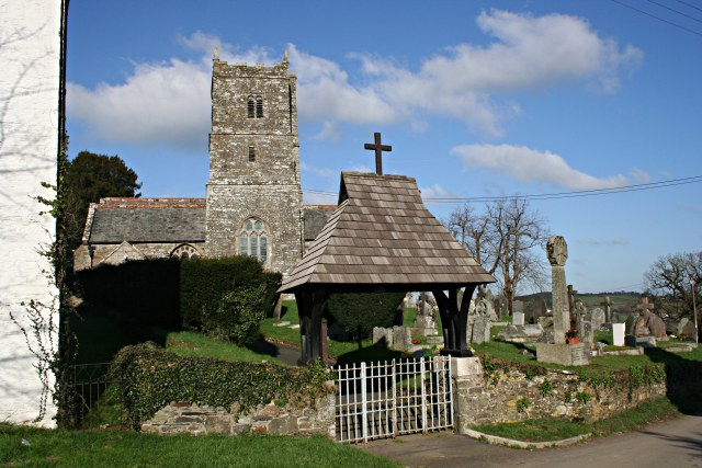 Lawhitton Church and Lych Gate